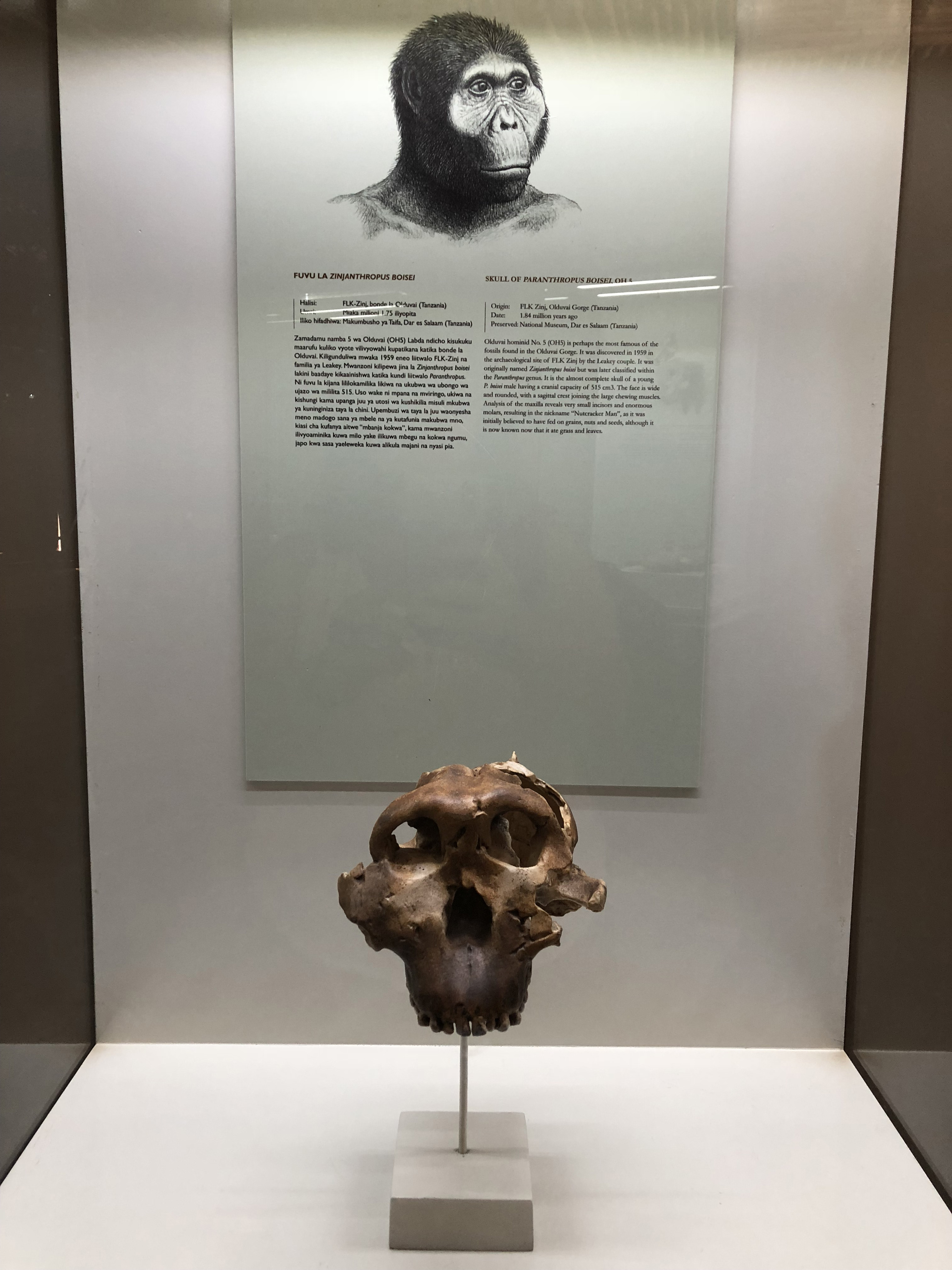 A display at the Olduvai Gorge Museum contains a cast of the Zinjanthropus boisei fossil skull discovered by Mary Leakey at the gorge in 1959. Detailed information about this find is shown on the plaque in both Swahili and English.